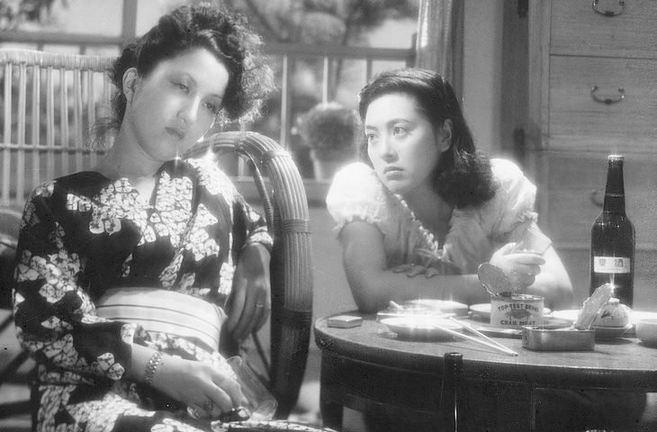 From left to right: Mitsuko Miura and Kuniko Igawa in Shōzō (1948) directed by Keisuke Kinoshita